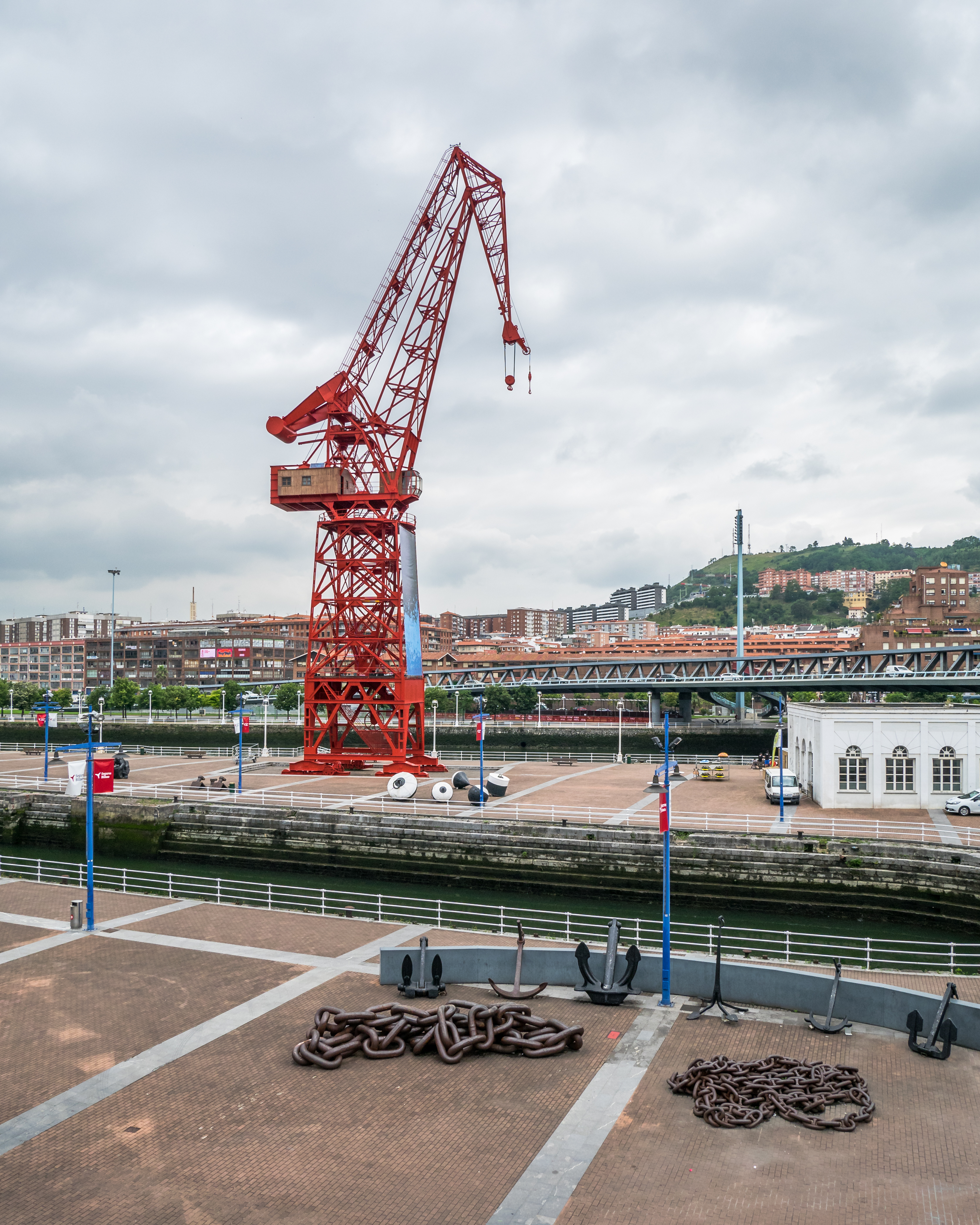 Port crane "Carola" of the former "Euskalduna" shipyards, in front of the Naval Museum. Bilbao, Biscay, Spain